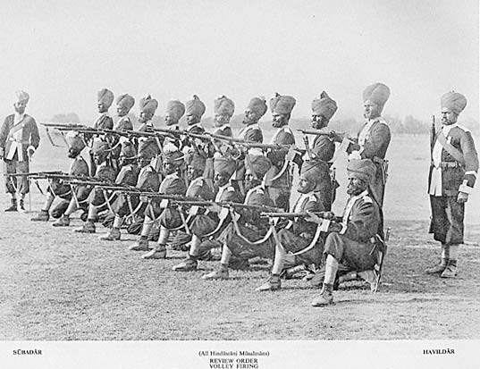 Downloaded from Caption reads "All Hindustani Musalmans" REVIEW ORDER VOLLEY FIRING Originally uploaded by Idleguy on 05:15, 10 November 2006 (UTC) As the photo indicates, the soldiers are all Muslims and it is very likely that it was taken in present day Pakistan - as most of Bremer's images were - thus, according to Pakistani laws, it falls under the public domain.